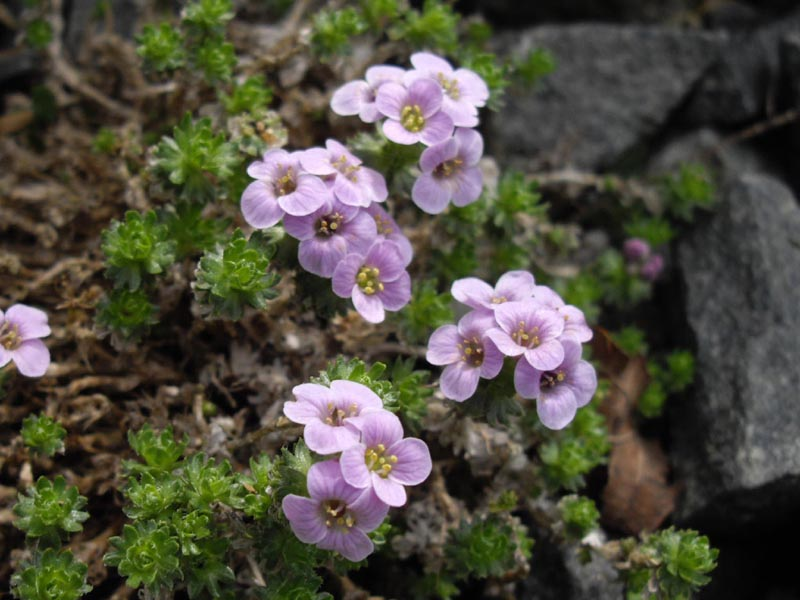 Petrocallis pyrenaica